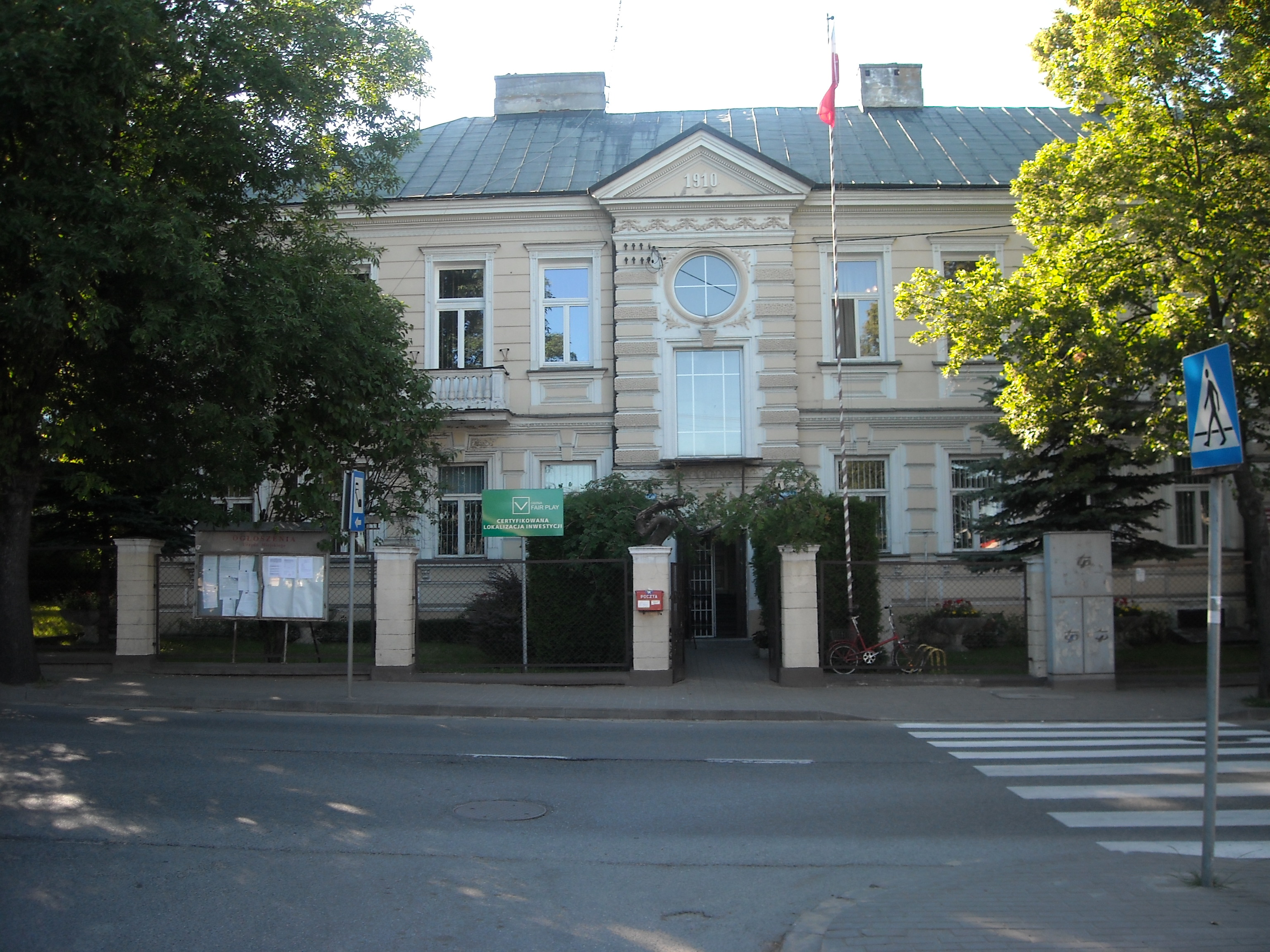 Office of the city in Garwolin